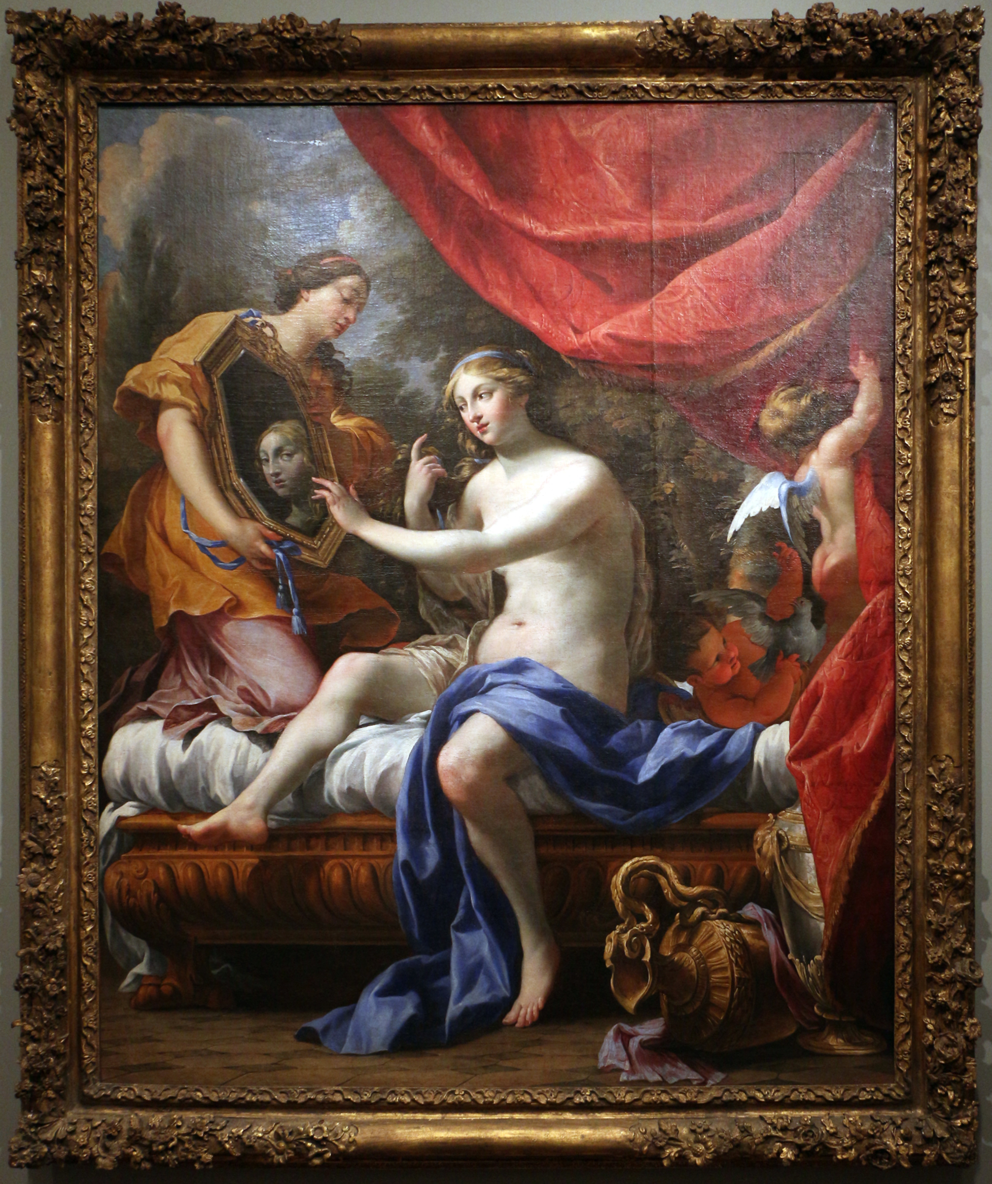 French paintings in the Cincinnati Art Museum